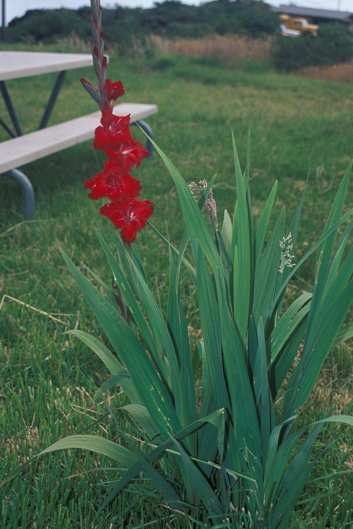 Gladiolus sp. (habit). Location: Maui, Housing Haleakala National Park